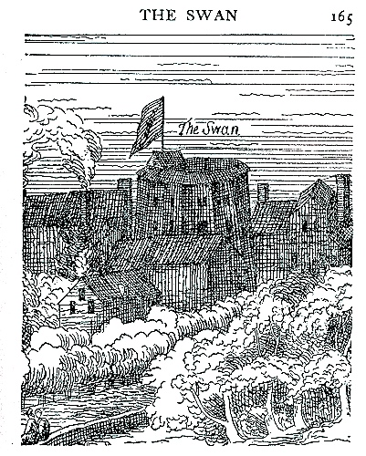 Exterior drawing of the Swan as it appeared in 1616